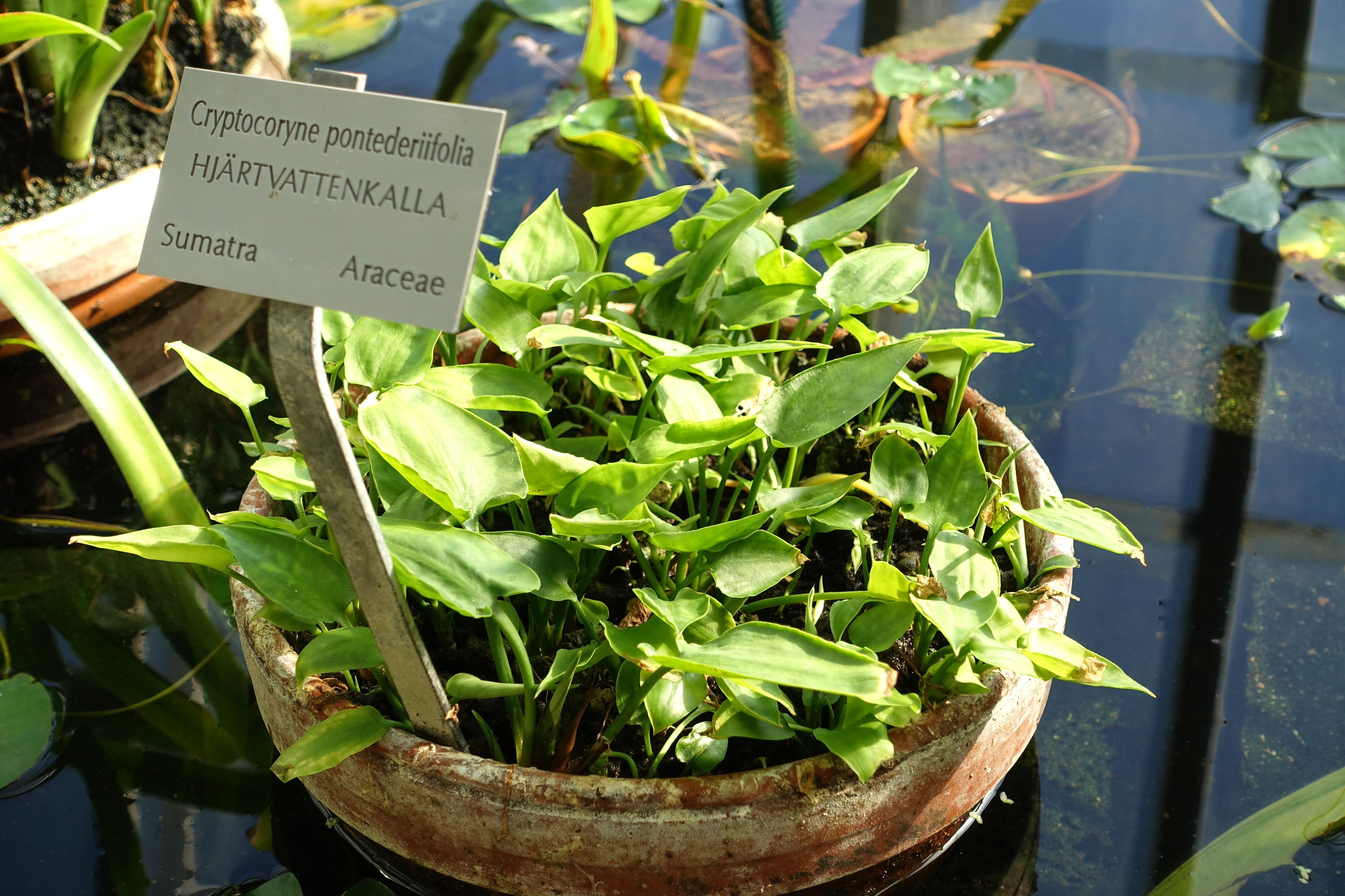 Botanical specimen of Cryptocoryne pontederiifolia in the Victoriaväxthuset, Bergianska trädgården – Stockholm, Sweden.